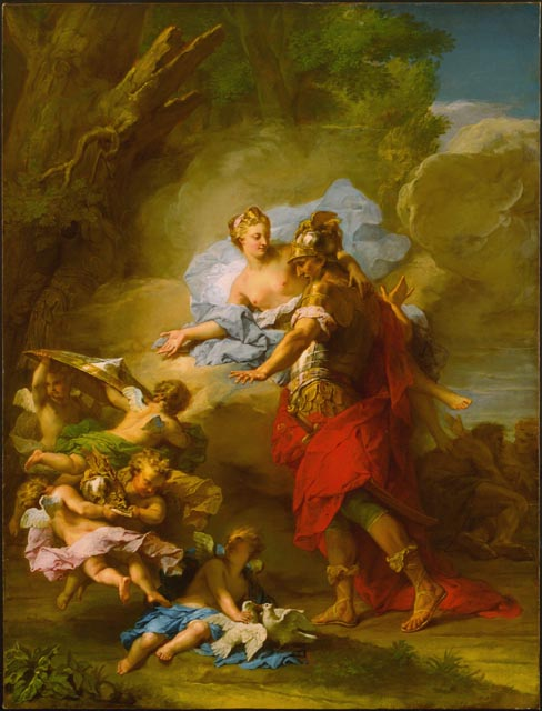 Venus Presenting Arms to Aeneas